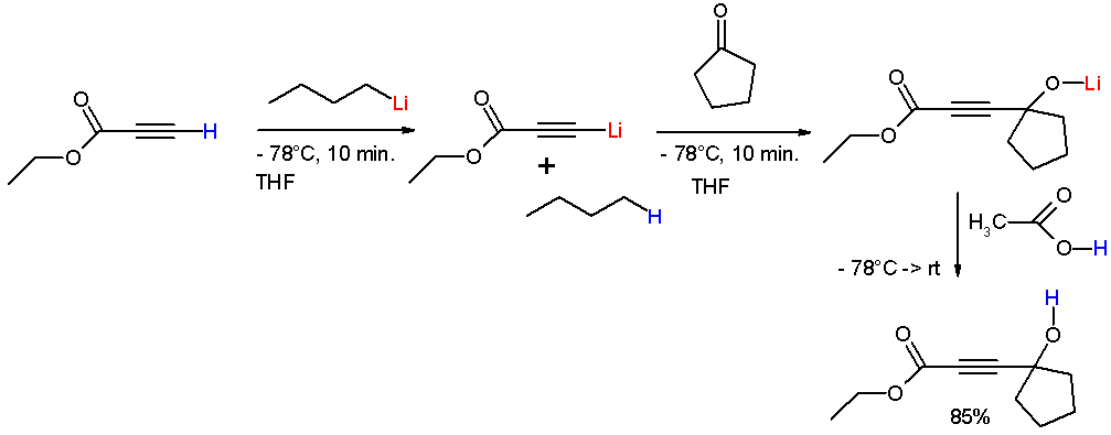 Acetylide to carbonyl addition